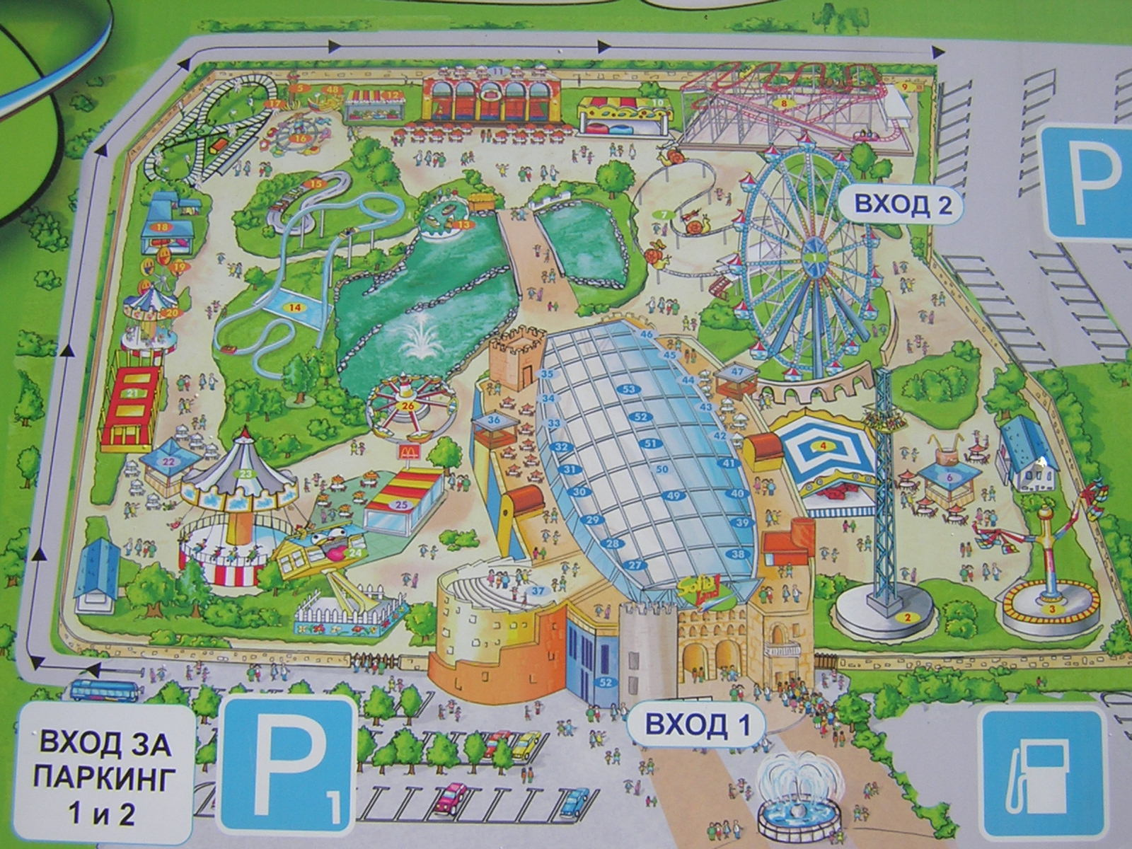 (Photo of) Map of Sofia Land amusement park, Sofia, Bulgaria